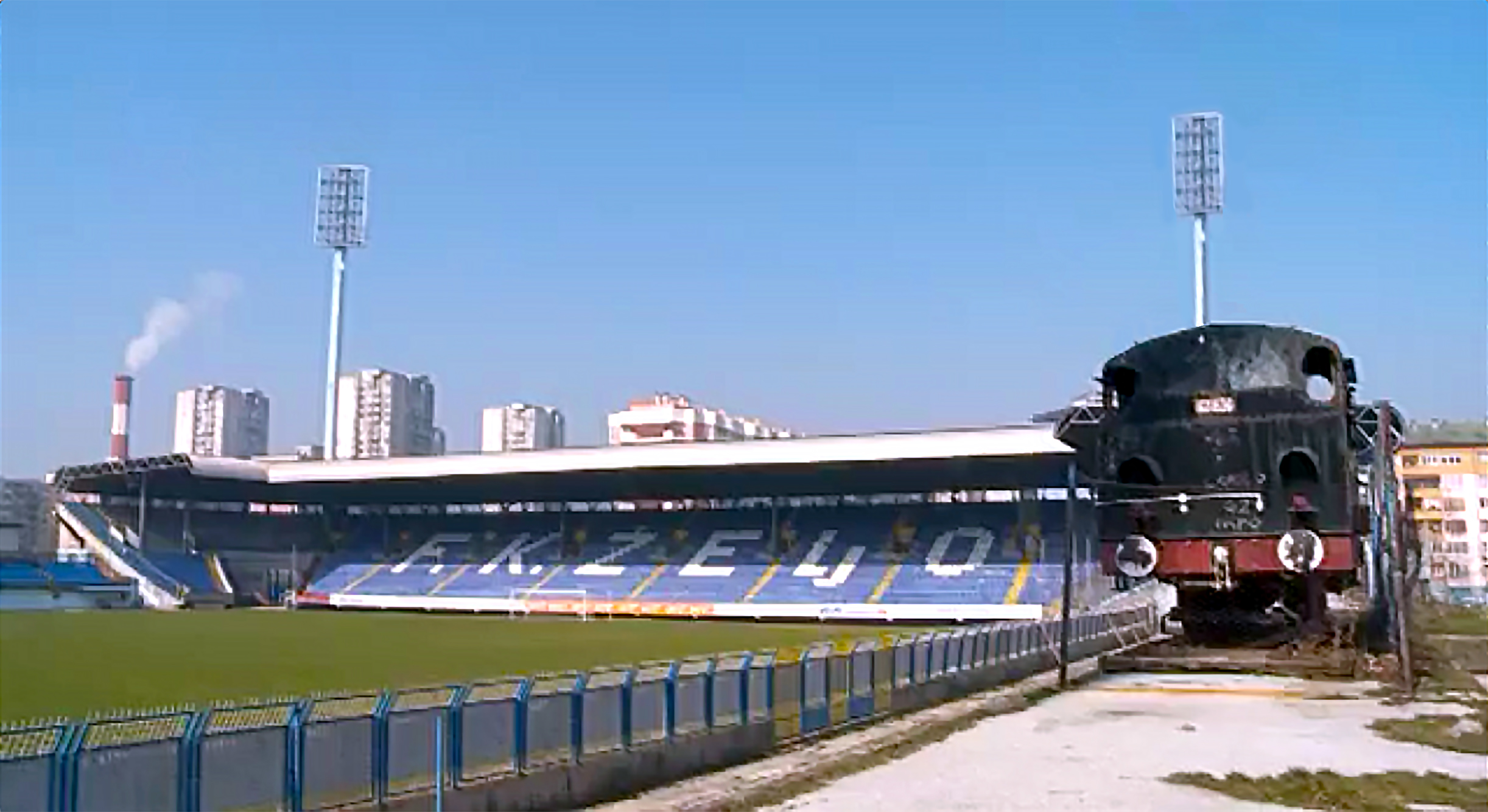 Grbavica Stadium informally called Dolina cupova (Valley of Cups) pictured here in August 2015.